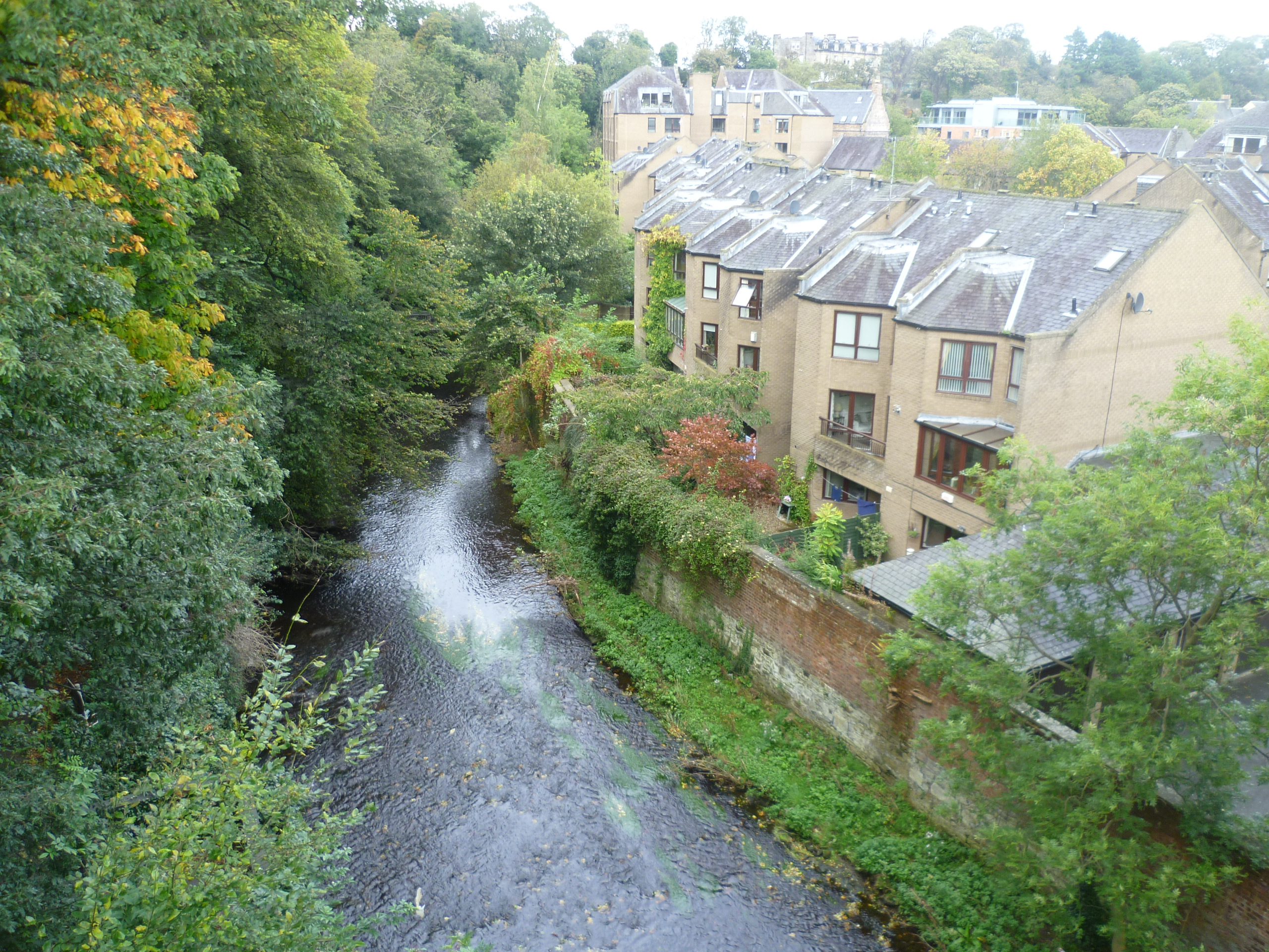 The Water of Leith at Dean Bank near the Dean Village.